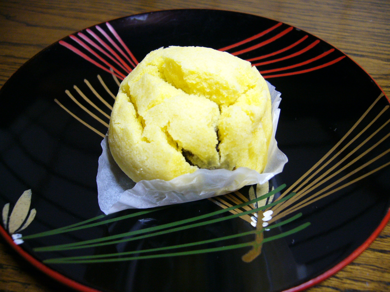 kimi-shigure,traditional Japanese confectionery,katori-city,japan